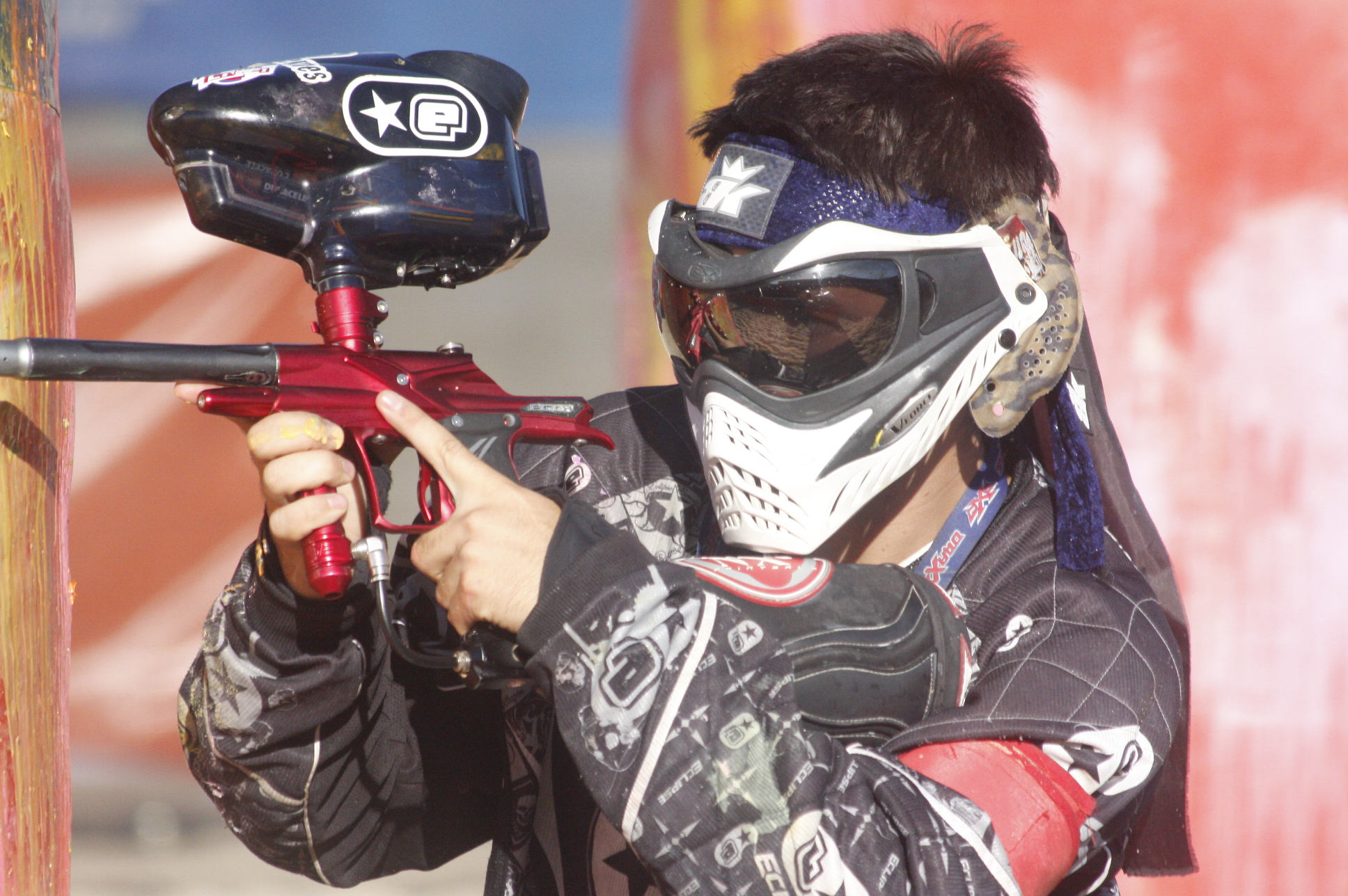 A man with a paintball gun.